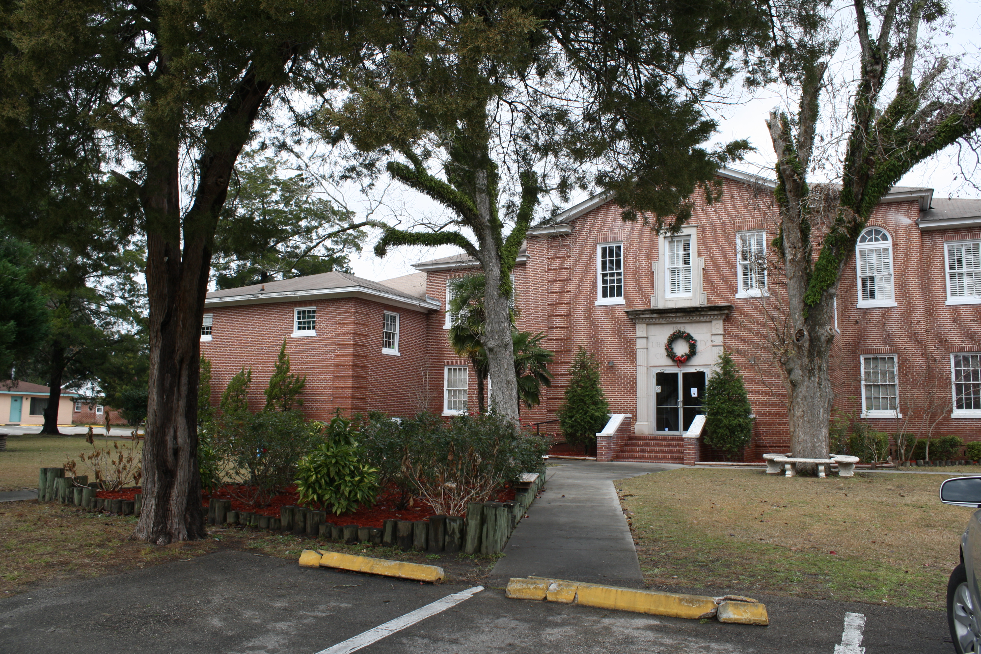 Courthouse, Liberty County, Bristol, FL